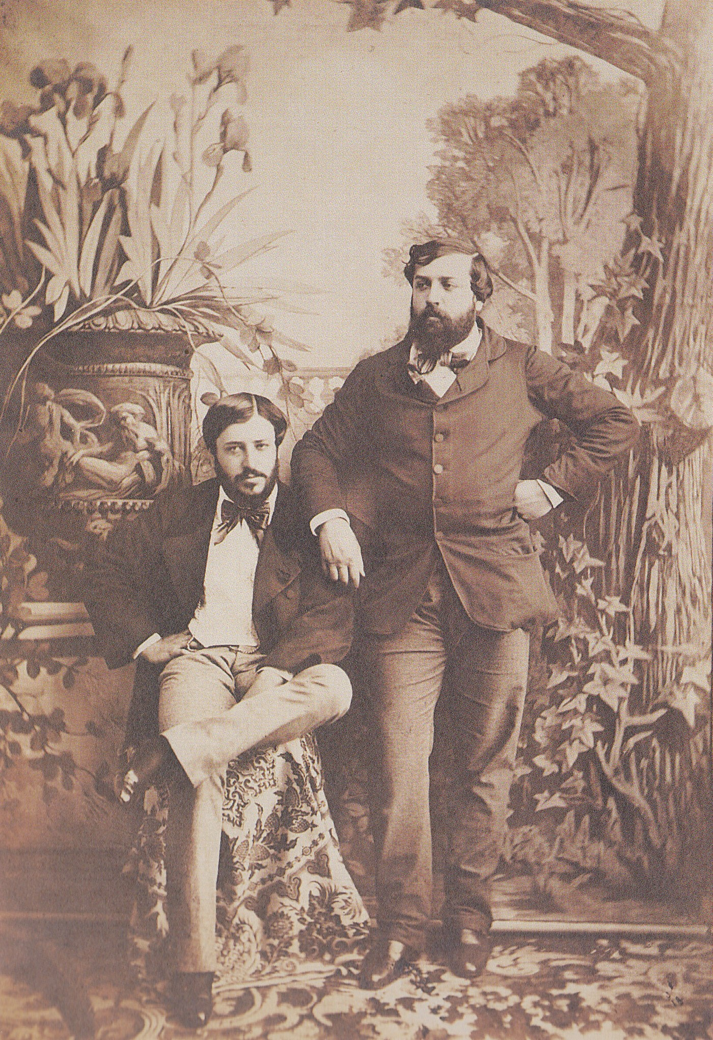 Selfportrait with brother Onesipe (sitting, left). Paris, Bibliothèque nationale de France, Département des Estampes et de la photographie